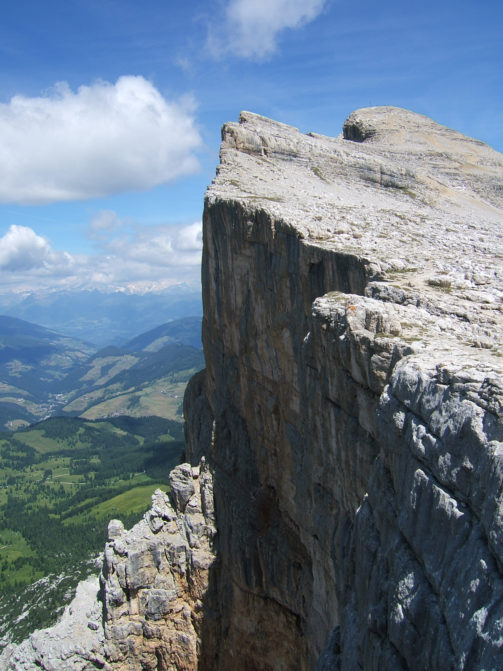 Heiligkreuzkofel from south